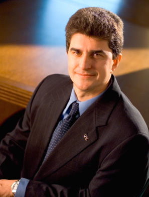 Dr. Yury Gogotsi Distinguished University and Trustee Chair Professor, Department of Materials Science and Engineering and A.J. Drexel Nanotechnology Institute Drexel University